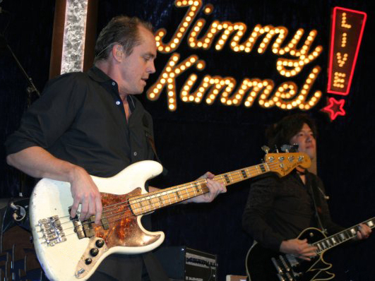 Photo of Jimmy Earl at work on Jimmy Kimmel Live!